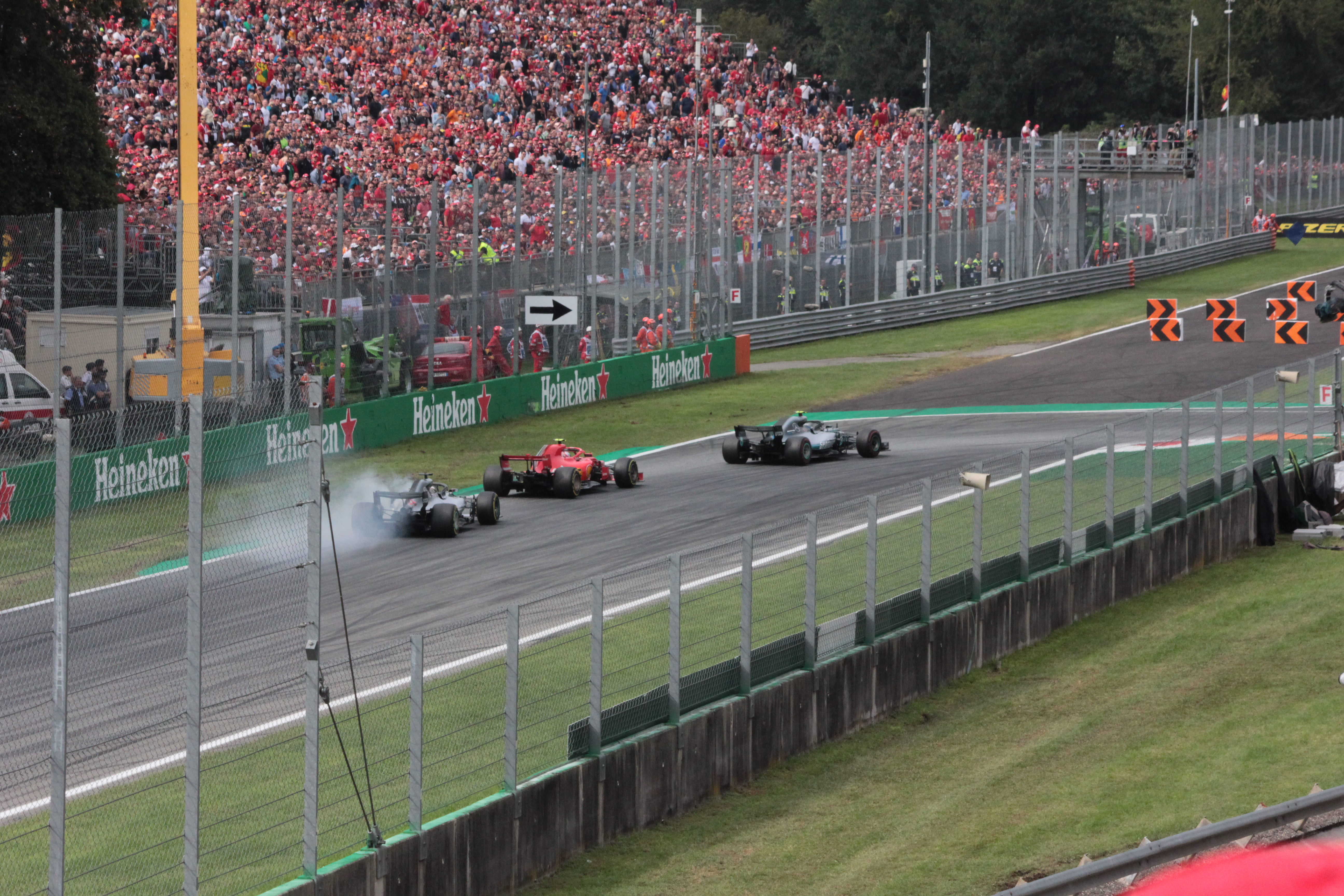 Lewis Hamilton, Kimi Räikkönen and Valtteri Bottas during the 2018 Italian Grand Prix.